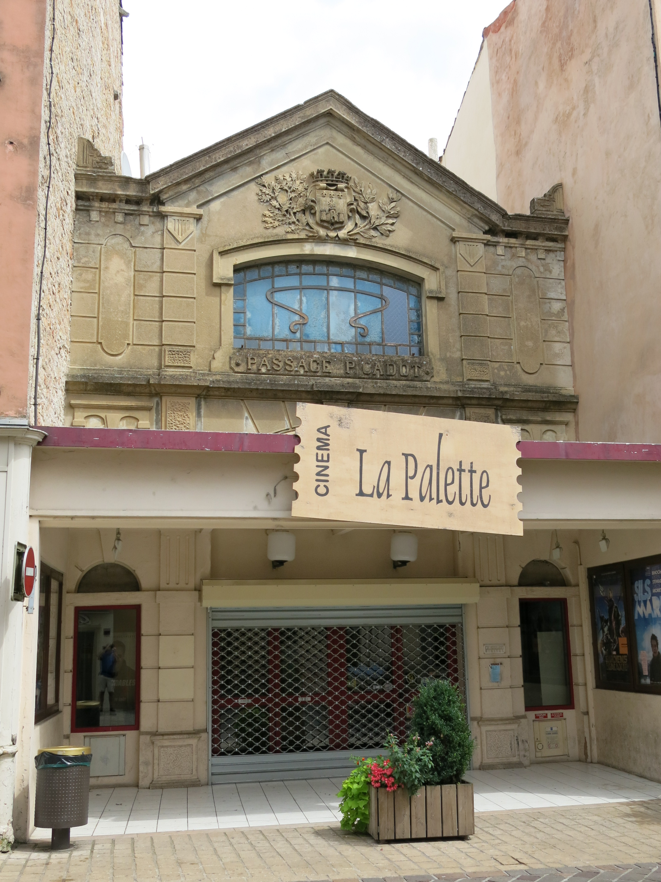 Movies la Palette in Tournus (Saône-et-Loire, France).